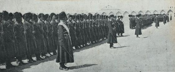 Persian Cosack Brigade